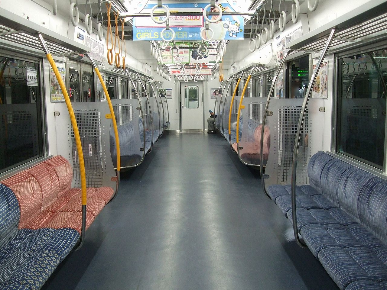 The interior of JR Kyushu 811-1500 series refurbished EMU car MoHa 811-1504 of set P1504